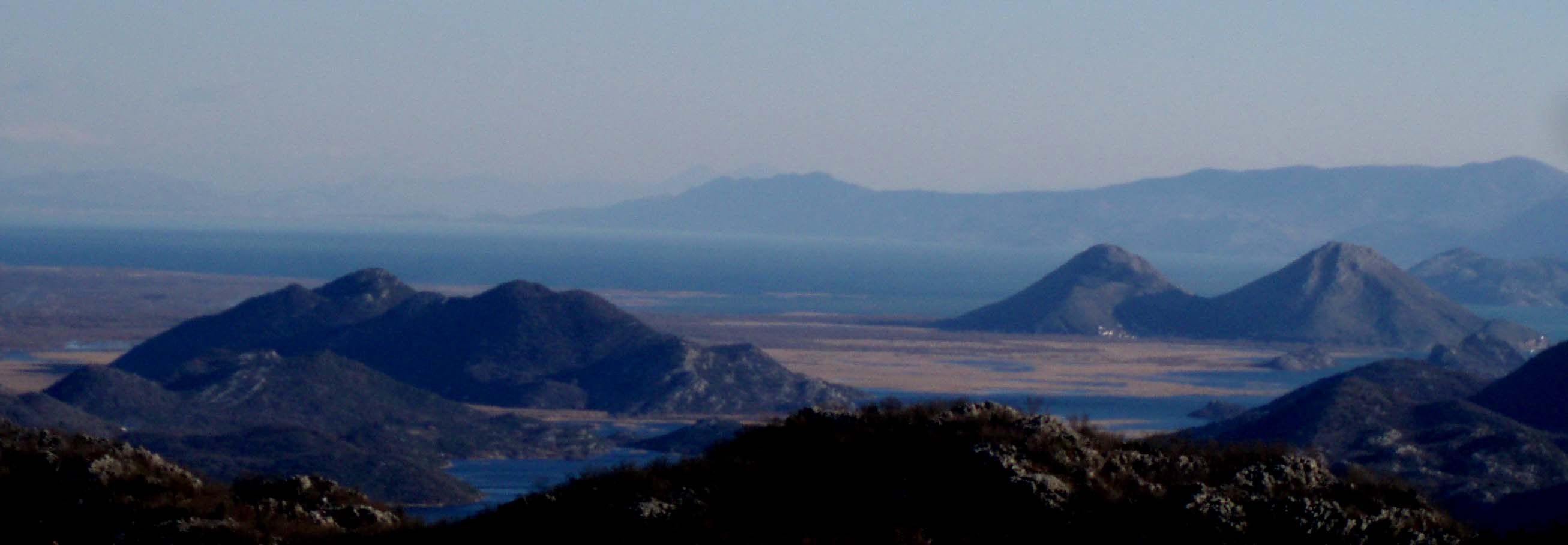 The Skadar Lake in february